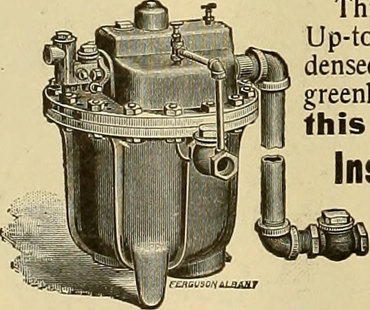 Mechanism used to prevent the flow of steam.